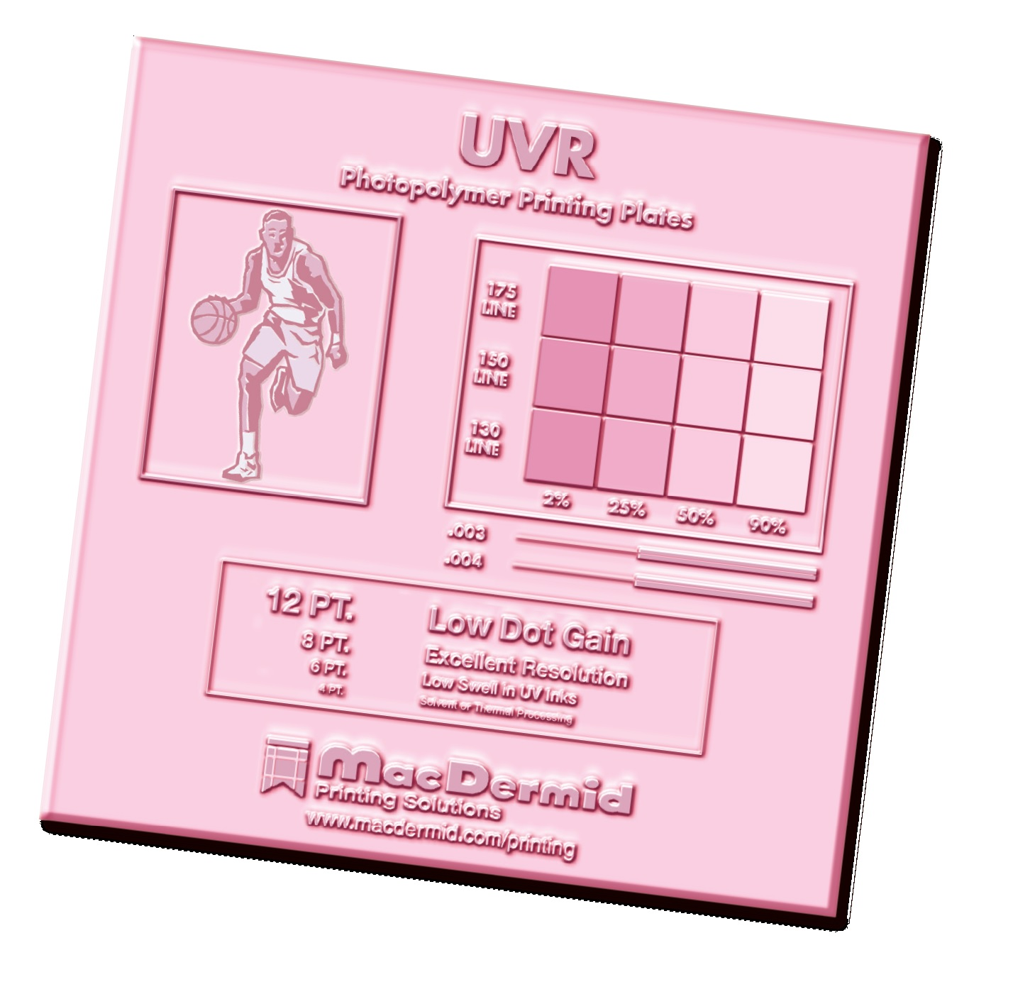 UVR Photopolymer Printing Plate